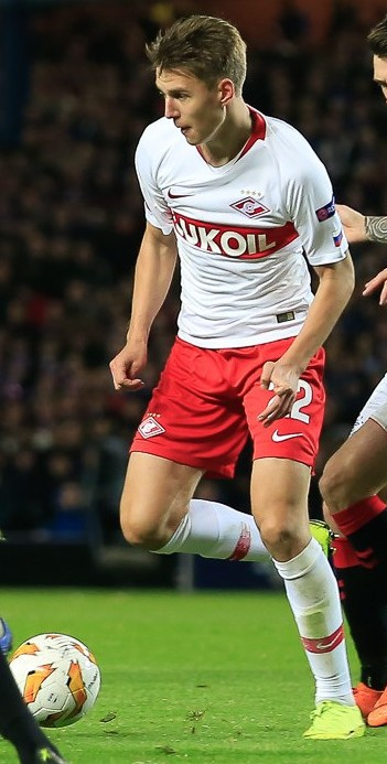 Rangers FC VS. Spartak Moscow 25 October 2018